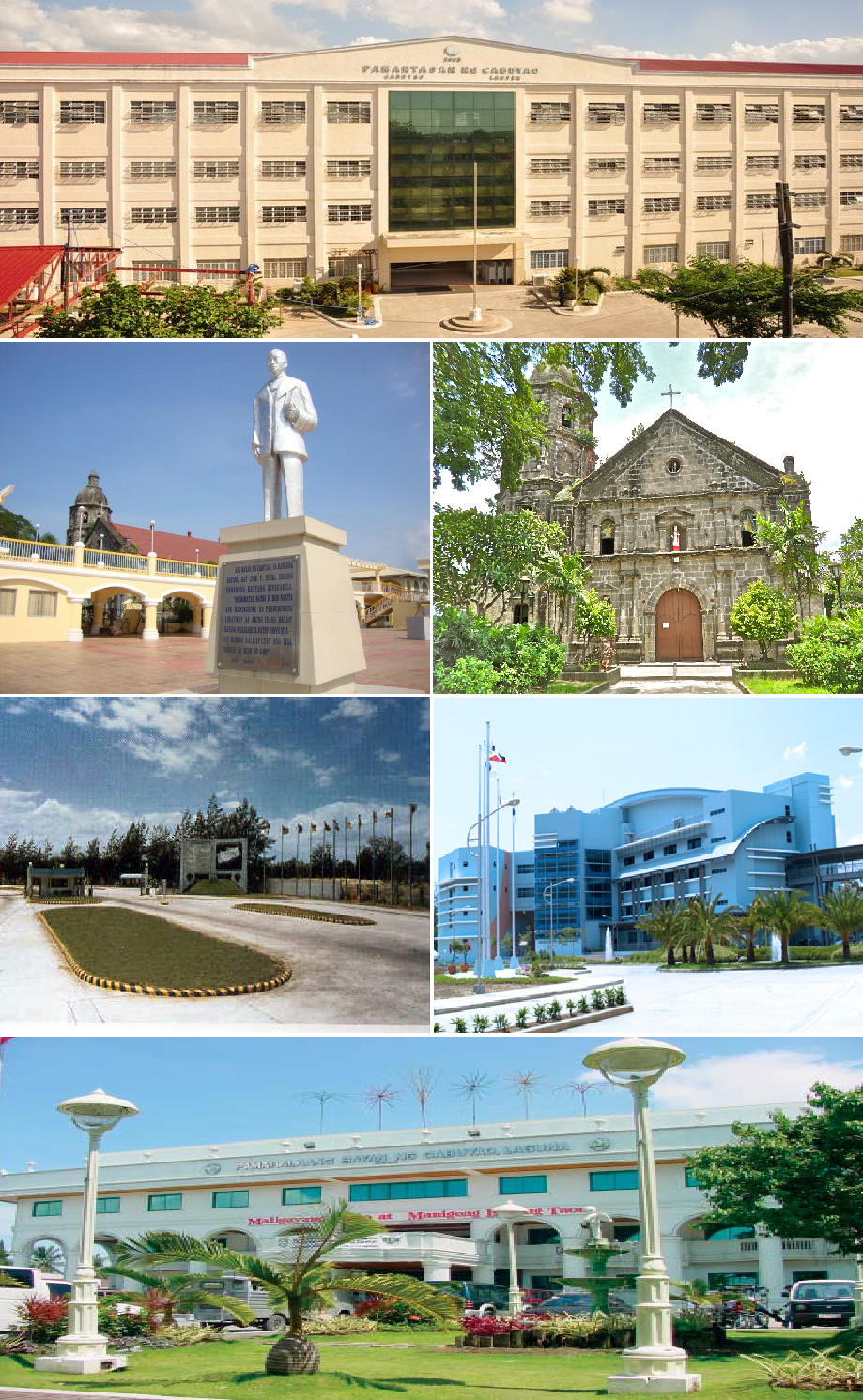 This image is used as the Infobox picture for Cabuyao, Laguna, Philippines